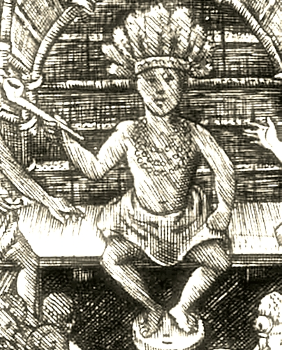 Detail from: Image:Virginia map john smith large.jpg John Smith's Map of Virginia used in various publications, first in 1612. Very large verision of the map. Other verisions available at source URL. Source URL: Detail of public domain map made by cropped by uploader who claims it remains public domain.